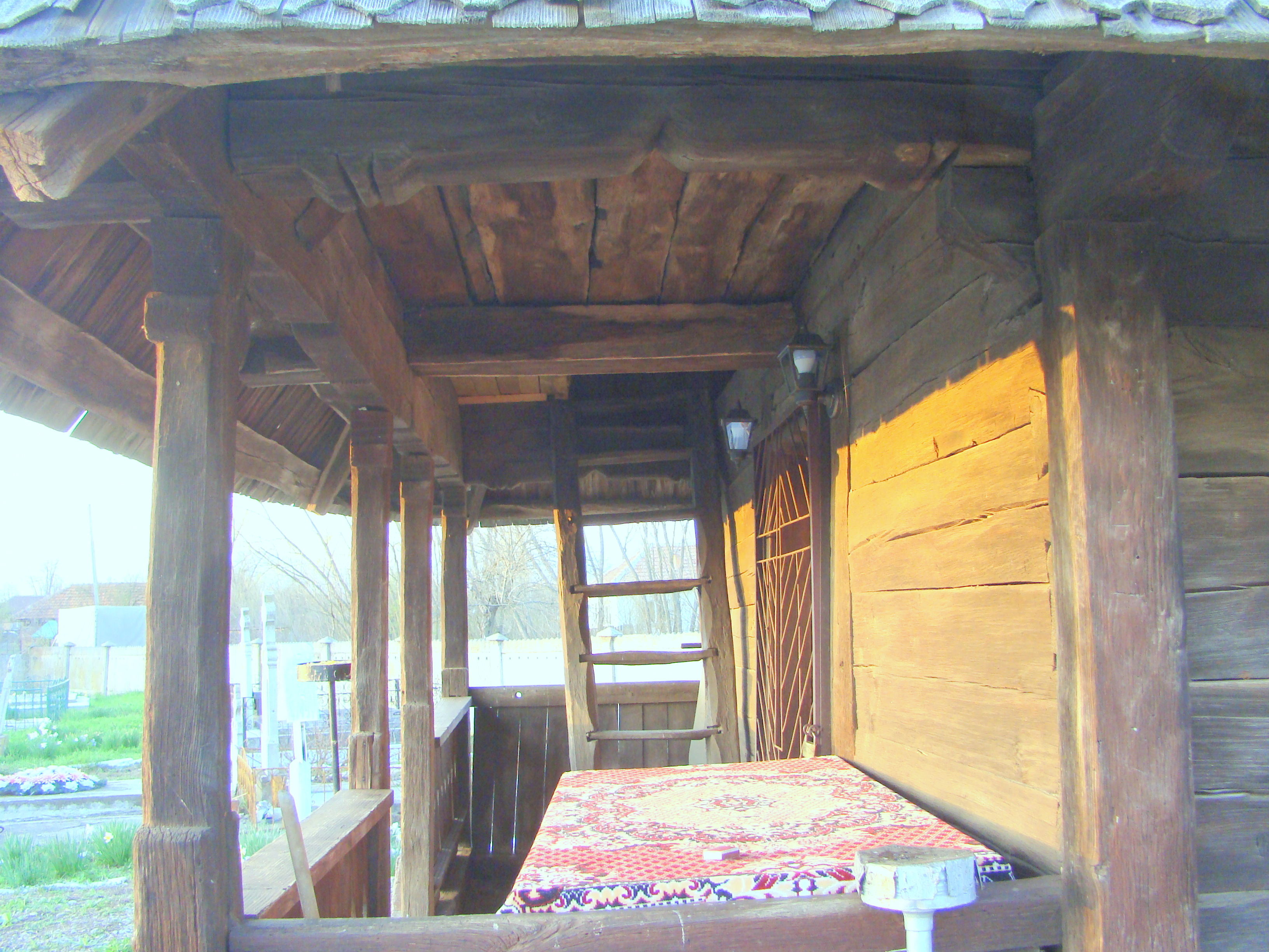 Wooden church of Saint John the Baptist in Stolojani, Gorj county, Romania